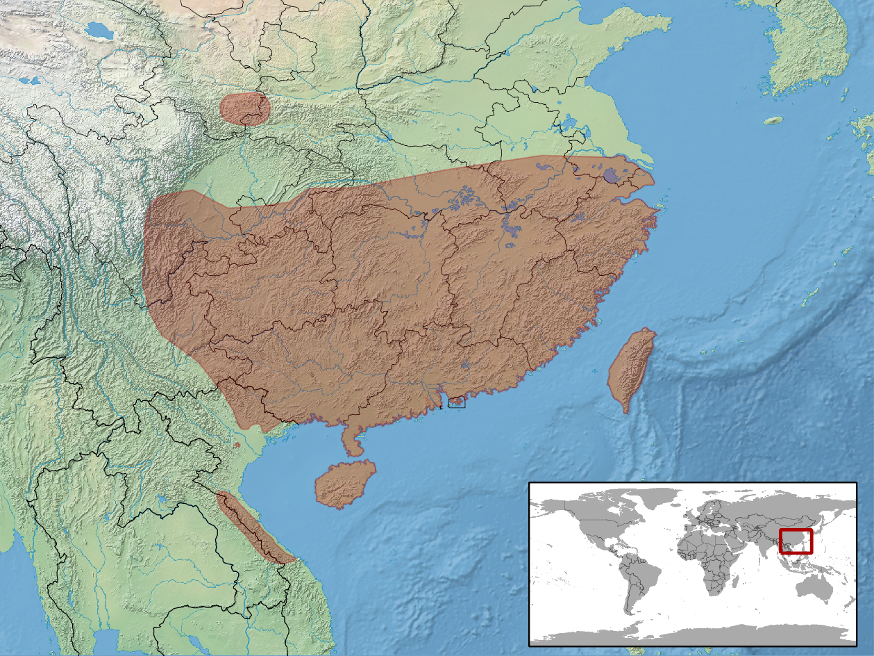 geographic distribution of Boiga kraepelini (Native: China (Anhui, Chongqing, Fujian, Gansu, Guangdong, Guangxi, Guizhou, Hainan, Hunan, Jiangxi, Sichuan, Zhejiang); Lao People's Democratic Republic; Taiwan, Province of China; Viet Nam)